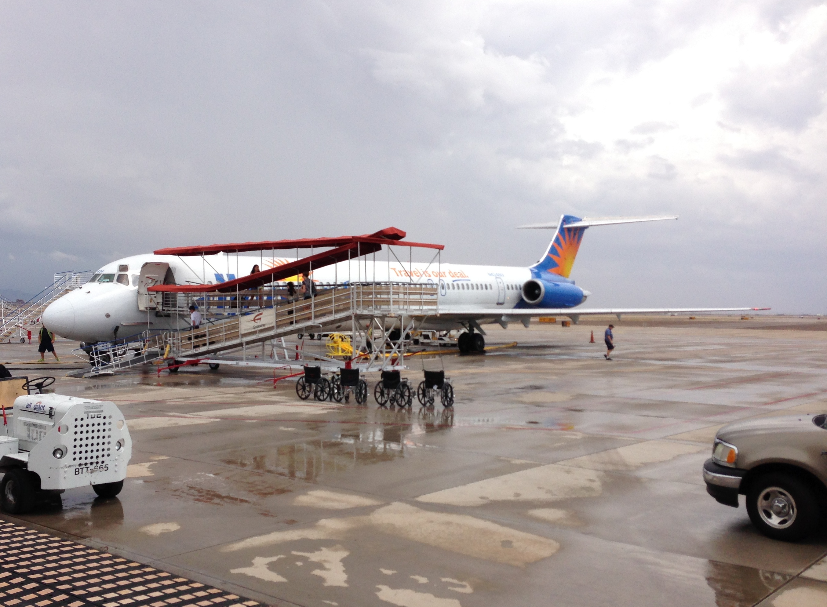 An Allegiant Air McDonnell Douglas MD-83 registered N424NV at Phoenix–Mesa Gateway Airport, Arizona